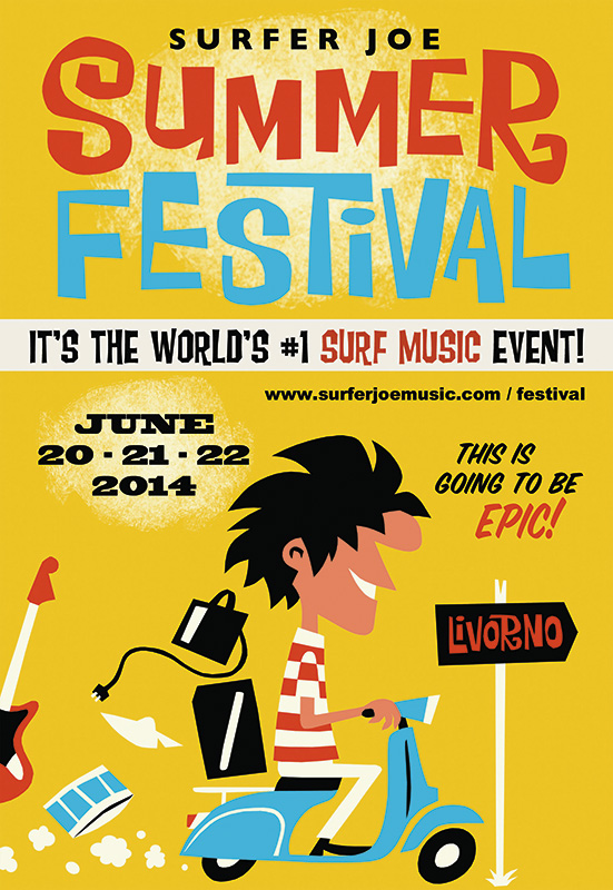 Poster of Surfer Joe Summer Festival 2014 by Fred Lammers